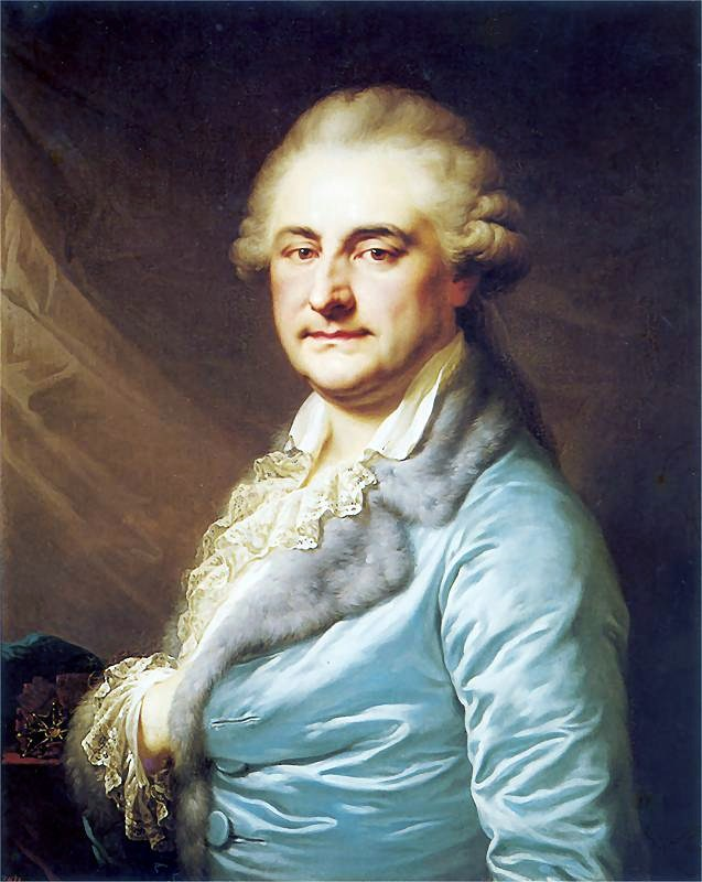 Stanisław August Poniatowski, last King of Poland and Grand Duke of Lithuania (1764 – 1795), en habit d’interieur by Johann Baptist von Lampi the Elder.